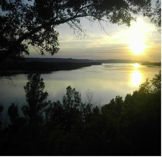 This is a picture of Lake Onalaska taken from the gazebo at the southern scenic overlook on Hwy 35, in the city of Onalaska, WI